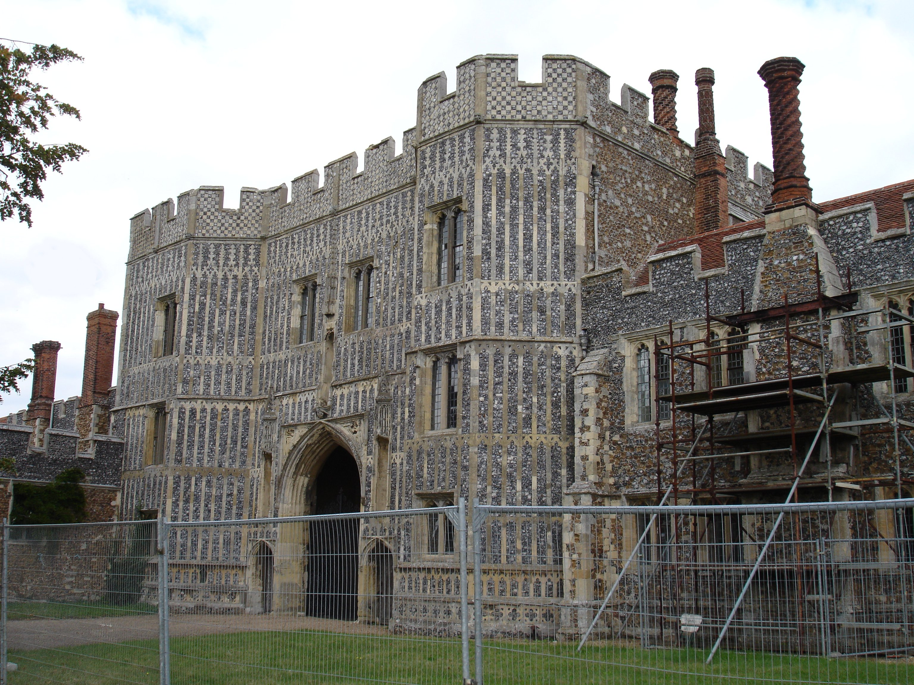 Photograph of the gatehouse of St Osyth's Abbey, St Osyth, Essex, England